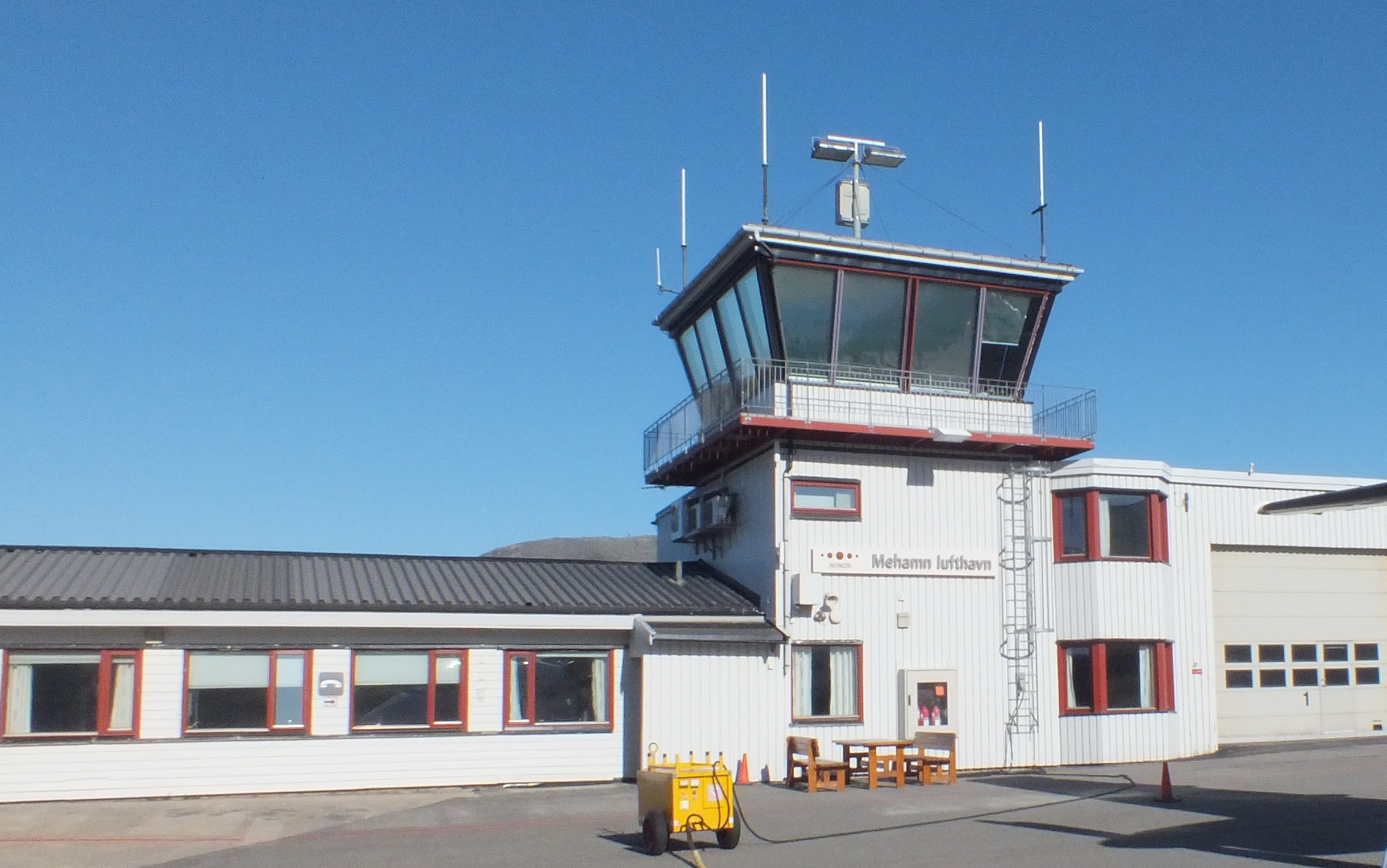 Mehamn airport, Finnmark, june 2013